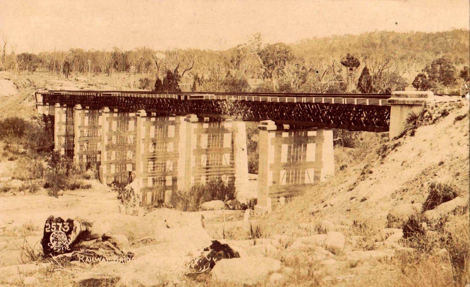 Railway Bridge, Stanthorpe, Qld - very early 1900s, to be specific, the Quart Pot Creek Rail Bridge